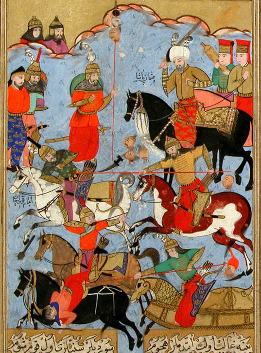 The defeat of Imam Kuli Khan, who had the support of Georgian troops under Alexander's general Yoram, by Osman Pasha on the Samur in May 1583